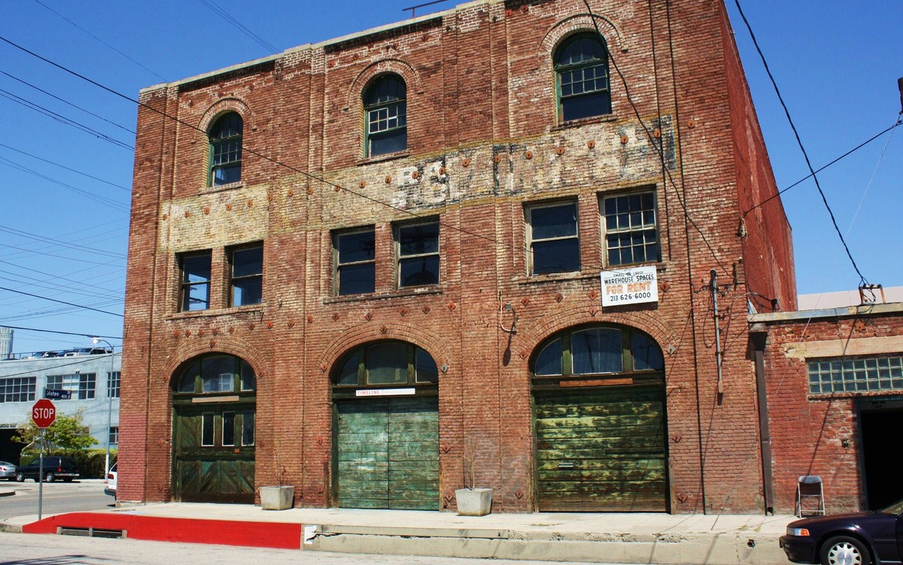 The location used for the exterior shots of Paddy's Bar in the television comedy "It's Always Sunny in Philadelphia" can be found in the Arts District of Downtown Los Angeles. This location is at 544 Mateo Street, Los Angeles.